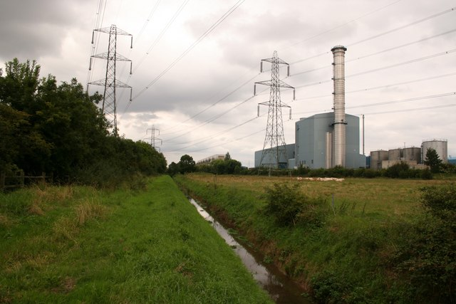 Beside Cottam power station